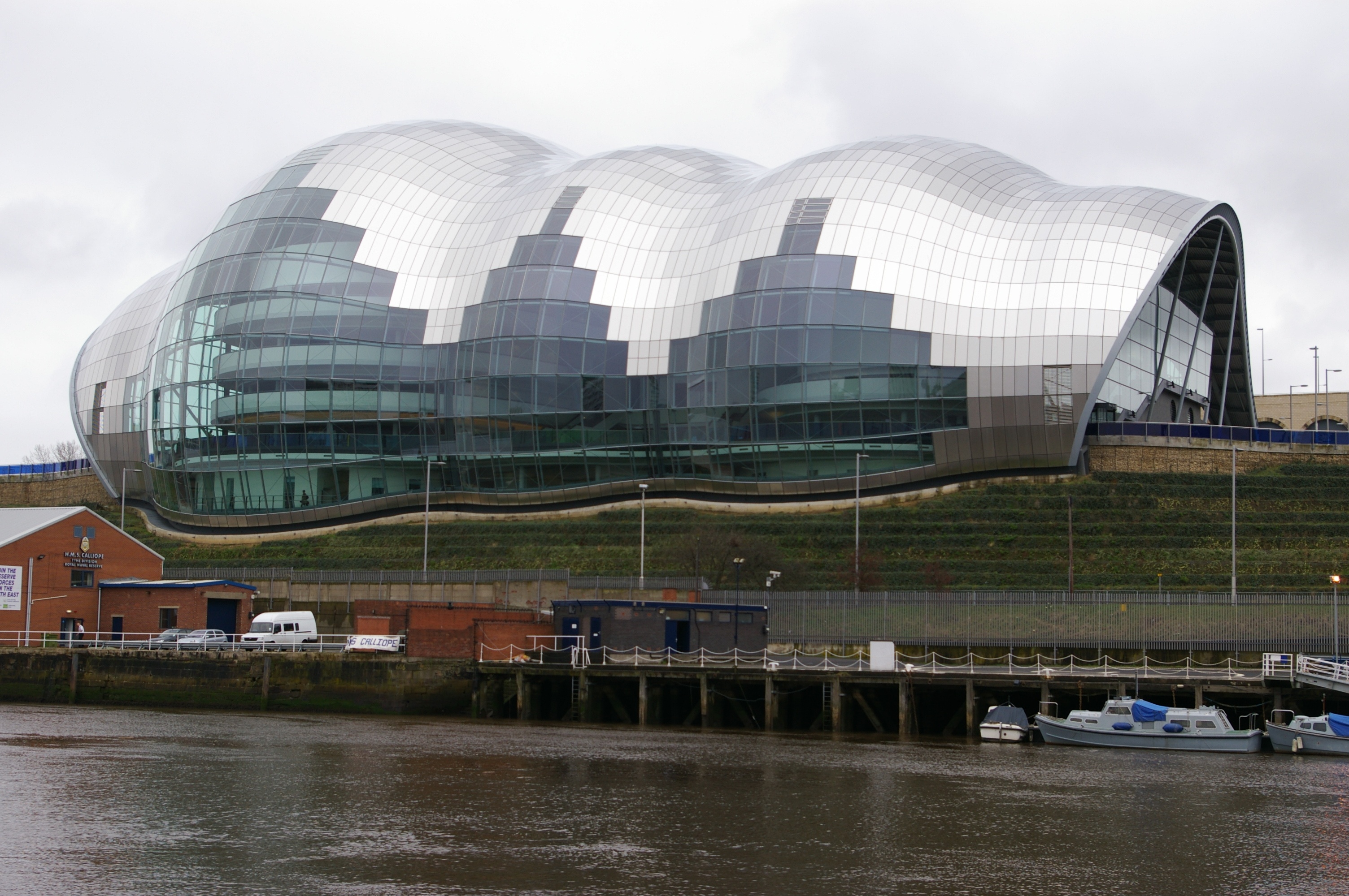 Norman Foster's concert hall: The Sage Gateshead in Gateshead, England